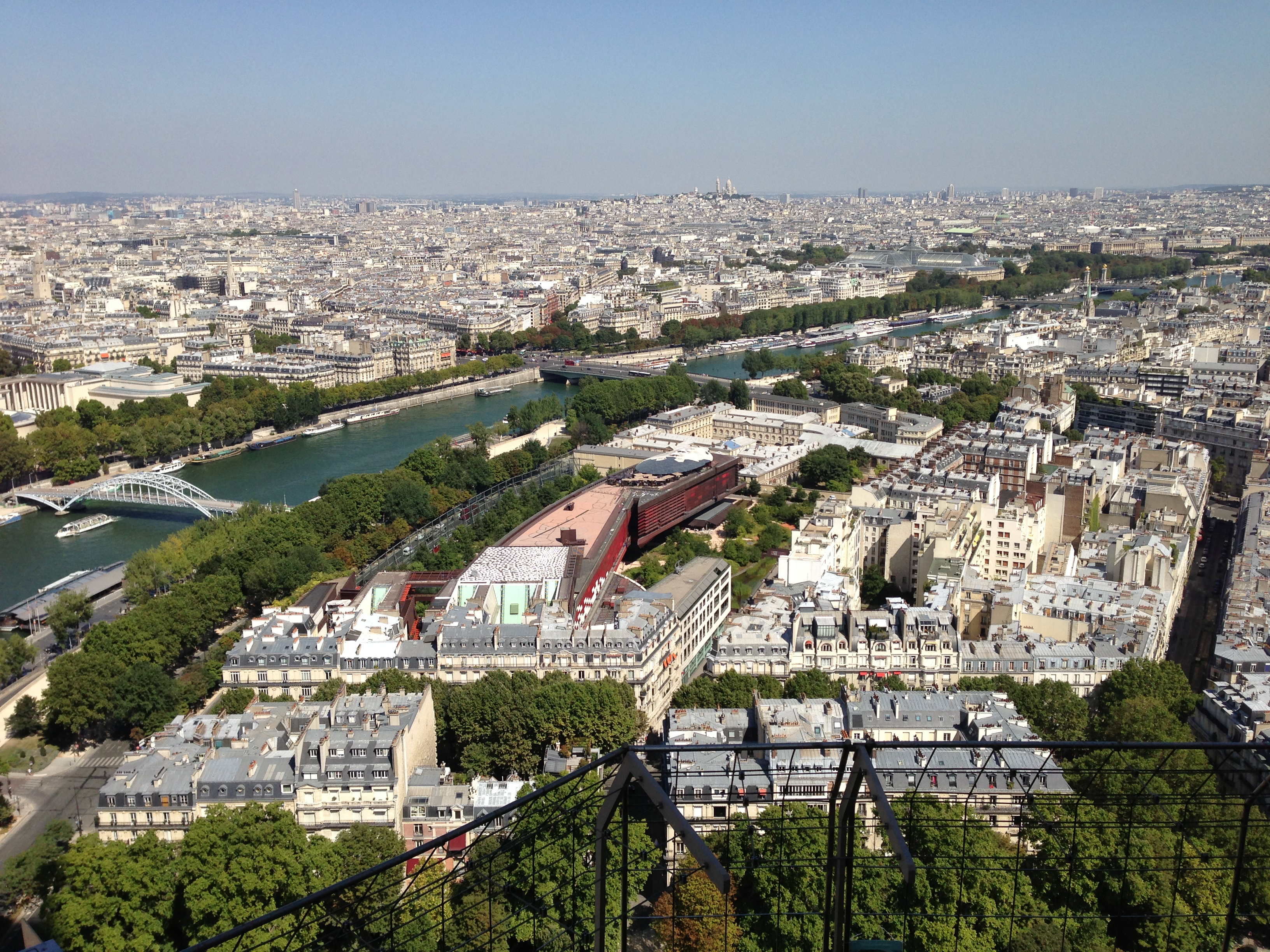 Paris from the second floor of the Eiffel Tower towards north-east. Musée du Quai Branly.